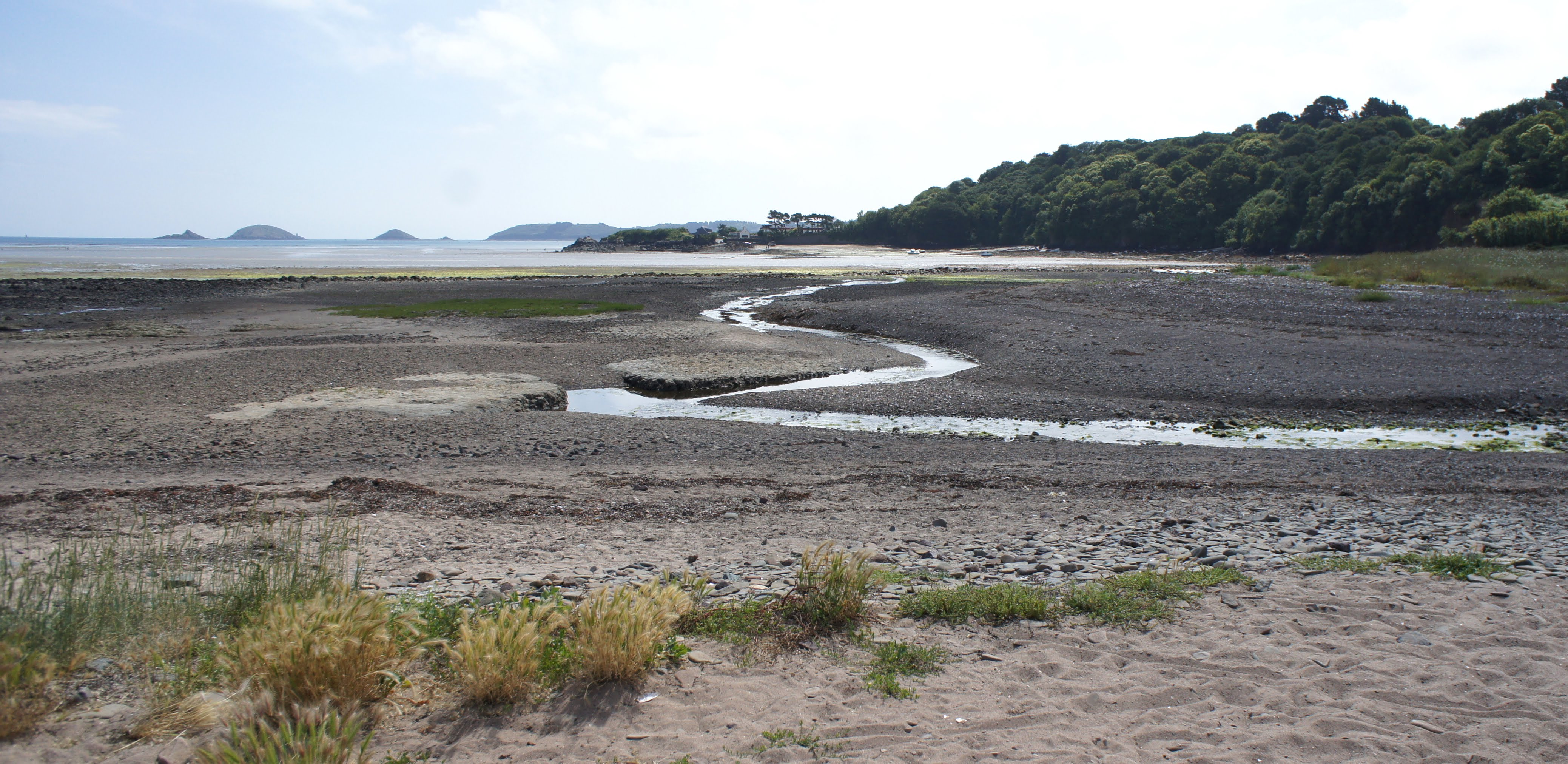 Anse de Beauport in Paimpol, Bretagne, France